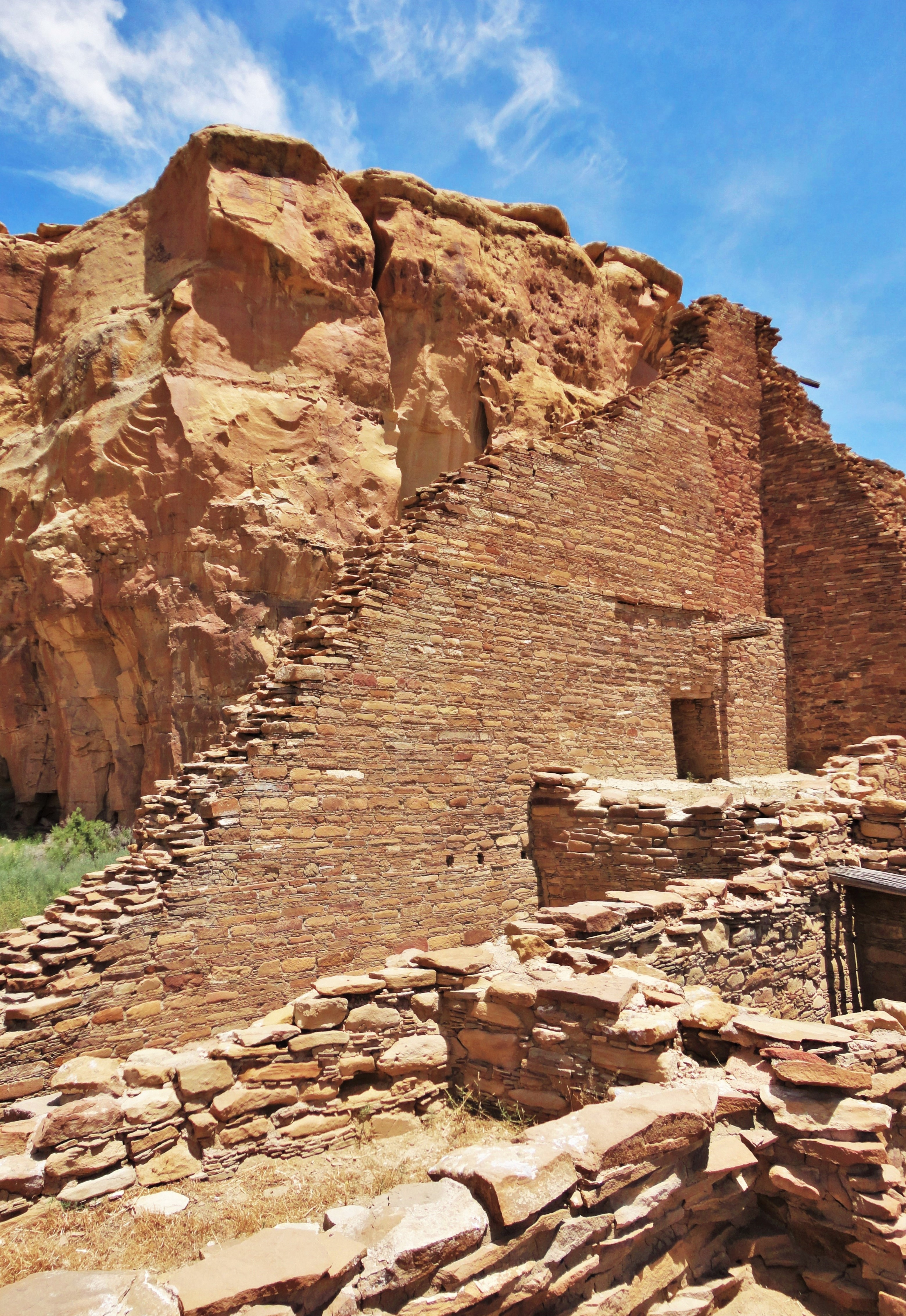 Pueblo Bonito in Chaco Canyon, New Mexico; looking north